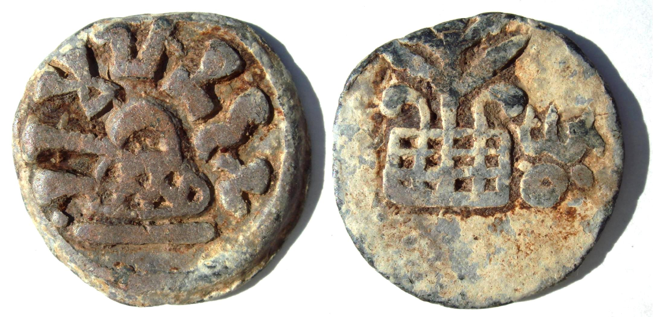 Chutus and Mudas (Deccan Satavahana feudataries) coin of ruler Mulananda c. 125-345 CE. Lead Karshapana 14.30g. 27mm. Arched hill/stupa with river motif below, tree within railed lattice, triratana/nandipada to right. Personal photograph.